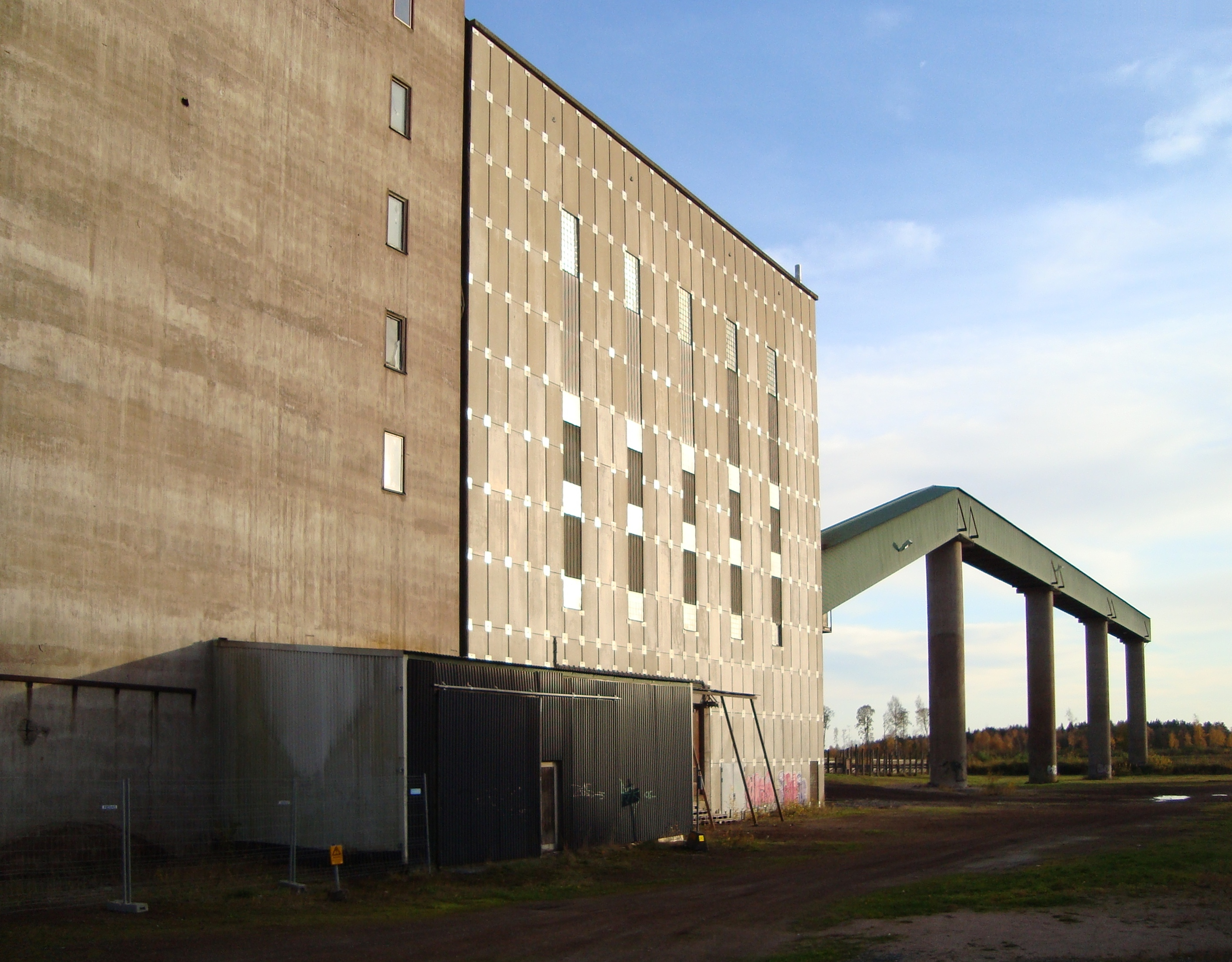 Mimer's mine, Norberg, Sweden